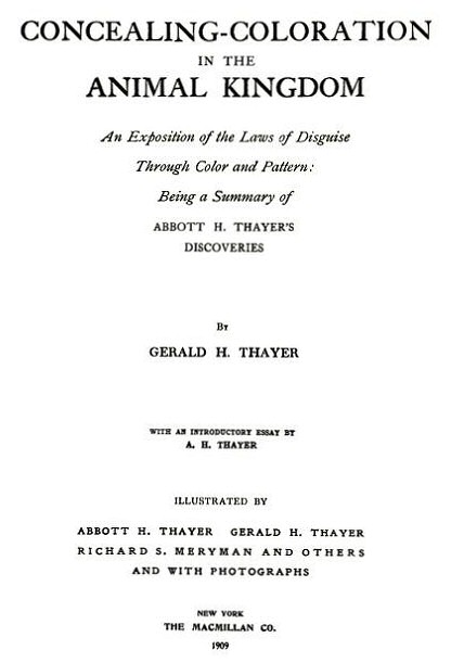 Detail of title page of Concealing-Coloration in the Animal Kingdom by Gerald H Thayer, Macmillan, New York, 1909.